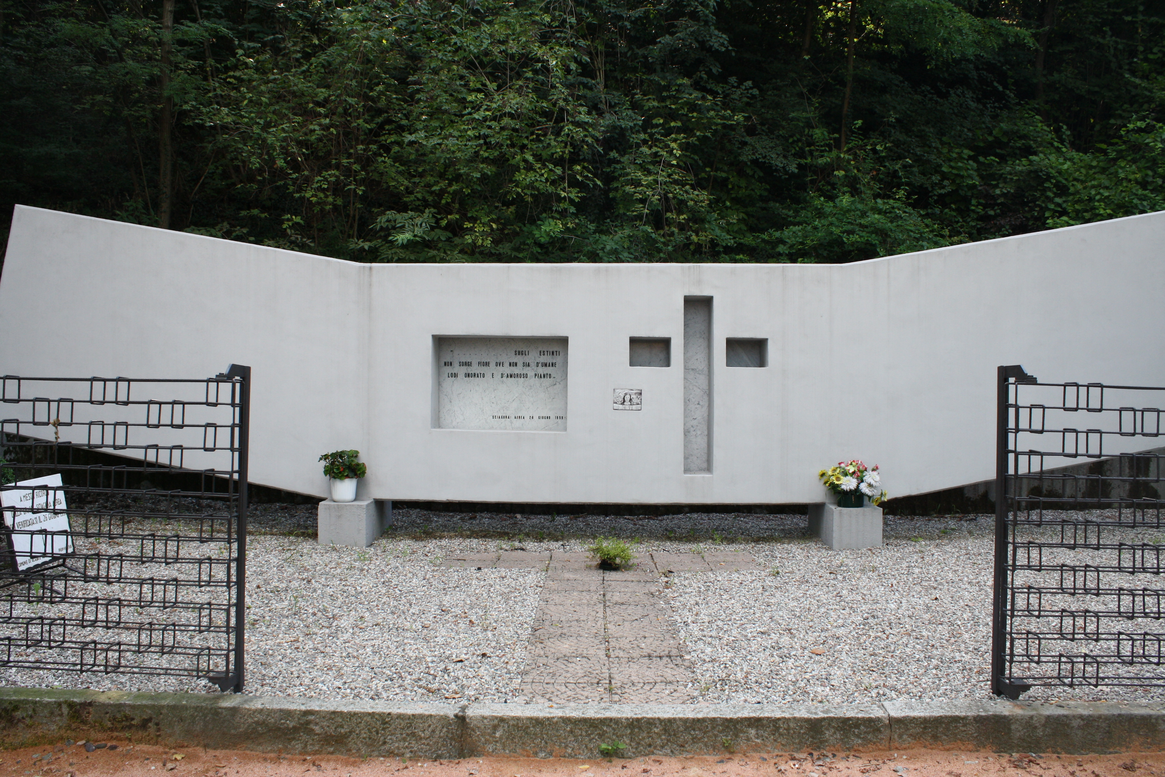 Monument of the 1959 airplane disaster in Olgiate Olona (Varese - Italy)